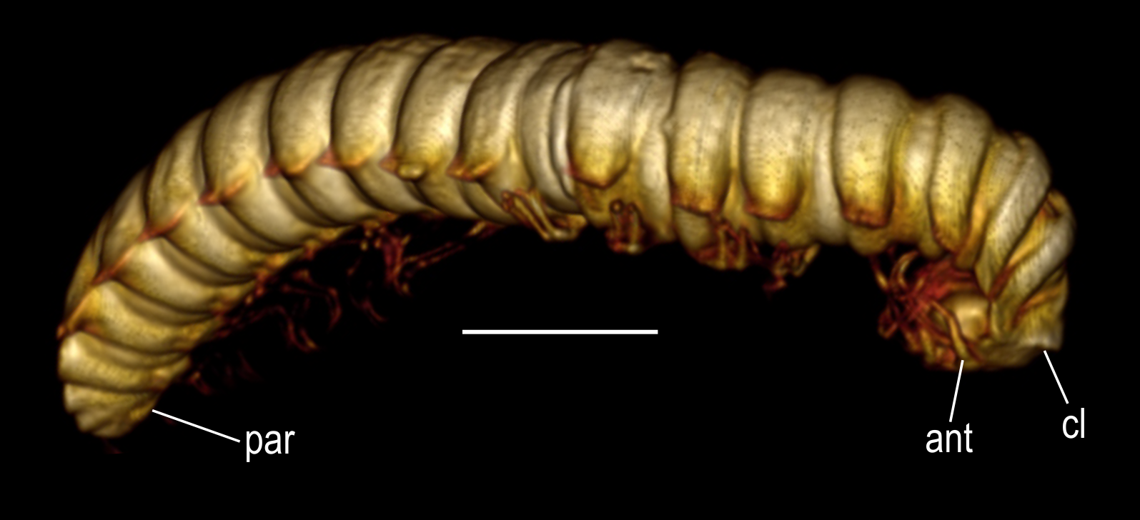 Figure 3. Maatidesmus paachtun nov. gen. and sp., holotype, 3D micro-CT reconstruction expressed in virtual colors. (A): General view, scale bar 5 mm. Anatomical Abbreviations: ant, antennae; cl, collum; par, preanal ring